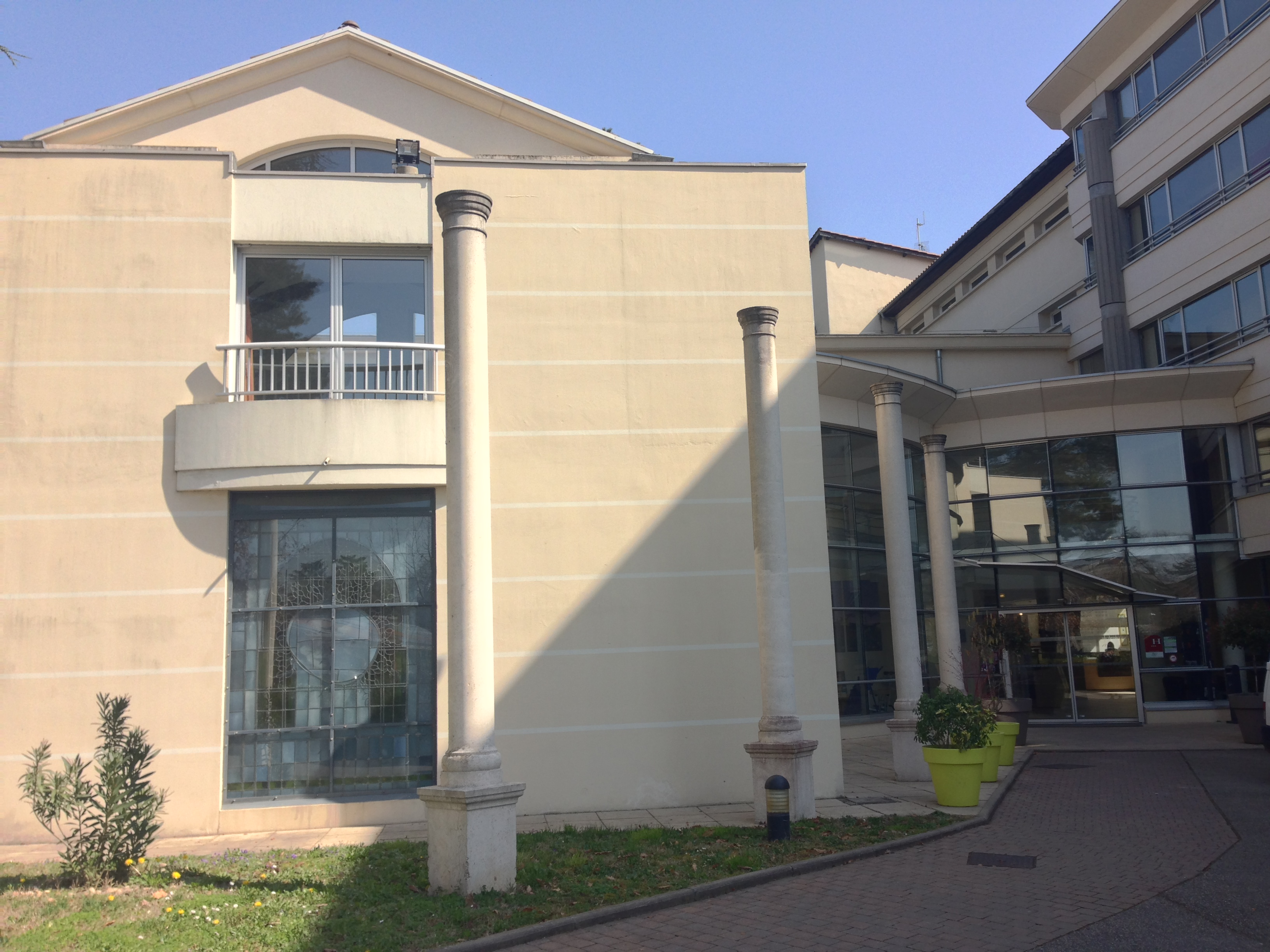 Photo of the place where the European Hackathon will be held in 2015.